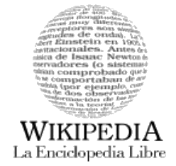 Spanish Wikipedia 2ND Logo. Adopted in feb-2002.